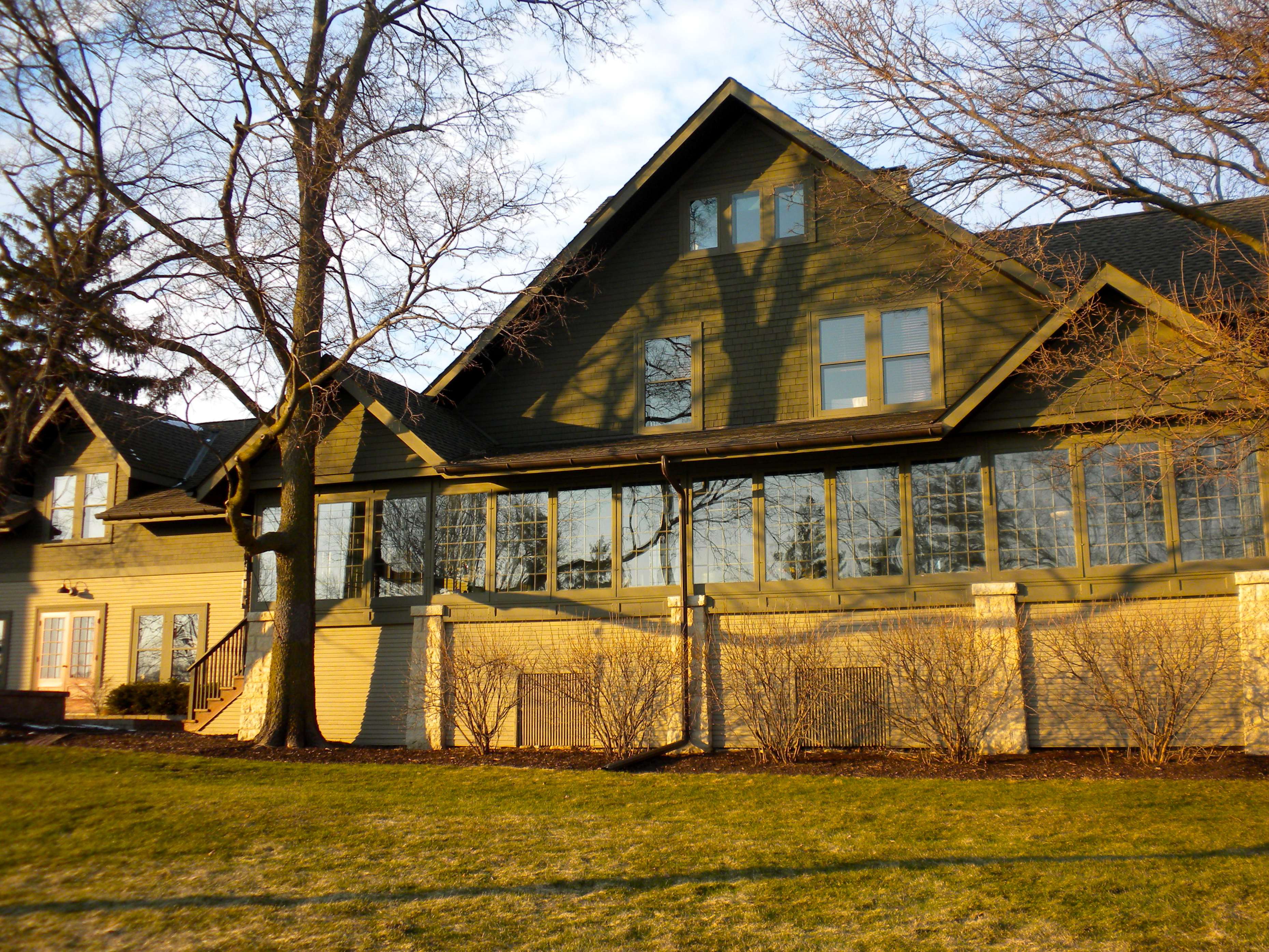 Riverbank Laboratories on NRHP since November 28, 2003. Located at 1512 Batavia Ave., Geneva, Illinois. Across the Street from Fabyan Villa - also on NRHP